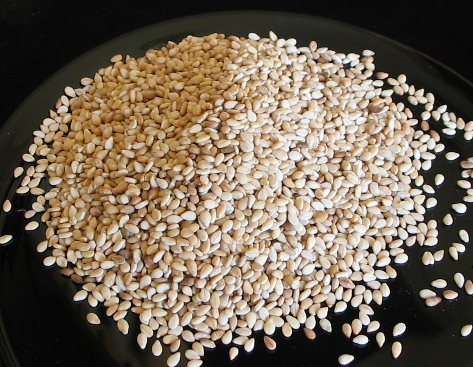 White sesame seeds (Shailesh Humbad